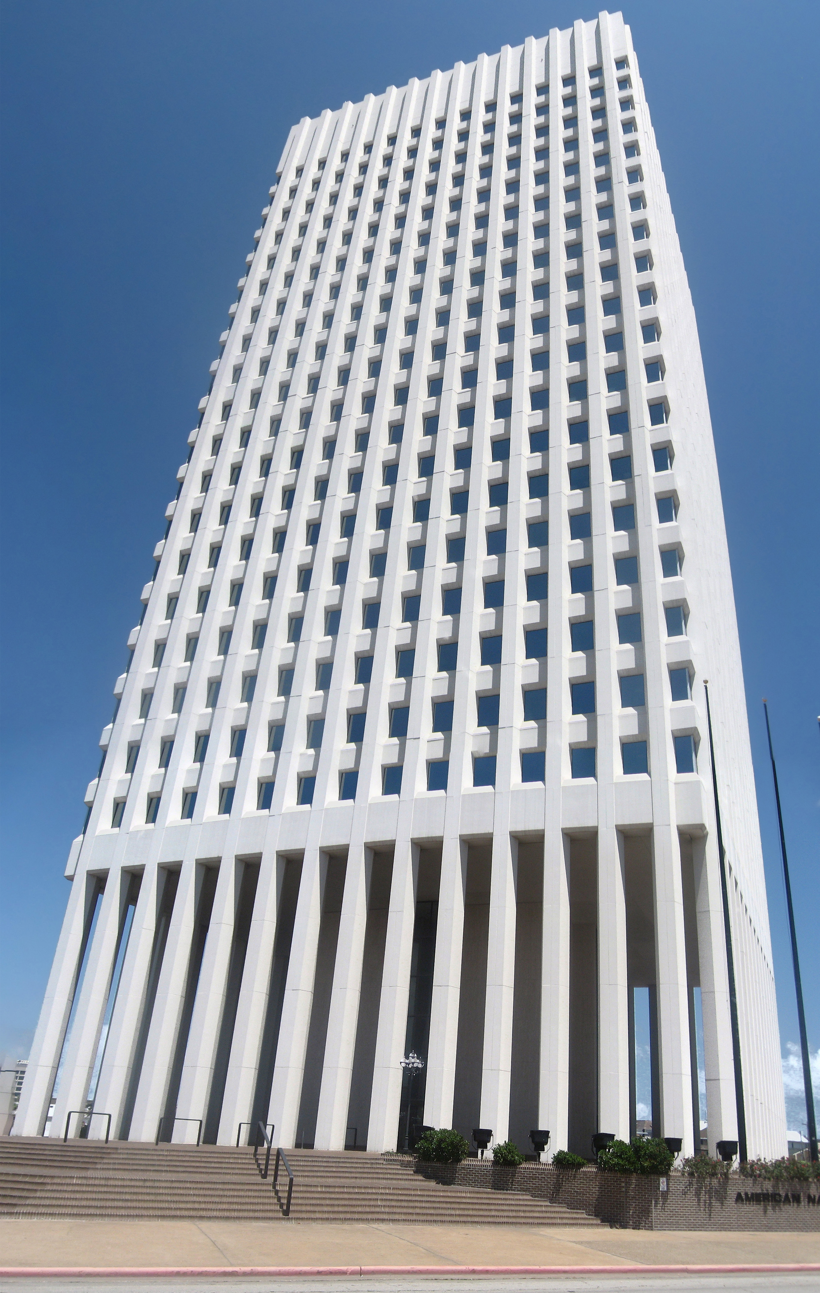 American National Insurance Company Building in Galveston